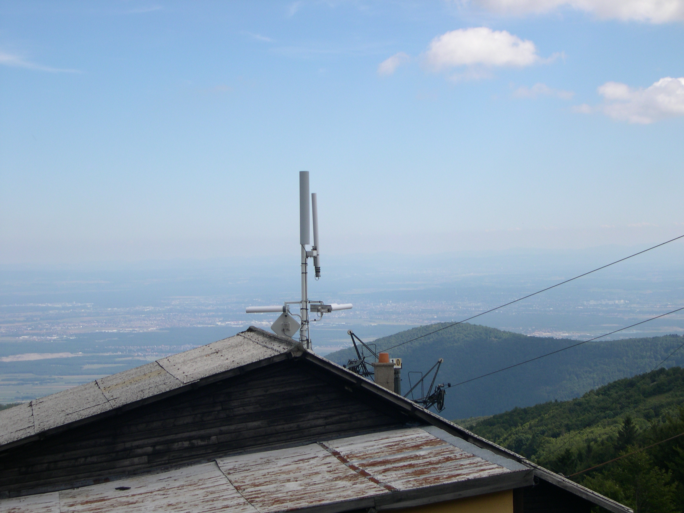 Amateur Radio Relay Grand Ballon. Alt: 1315m. Basically Mulhouse and South Alsace plain.